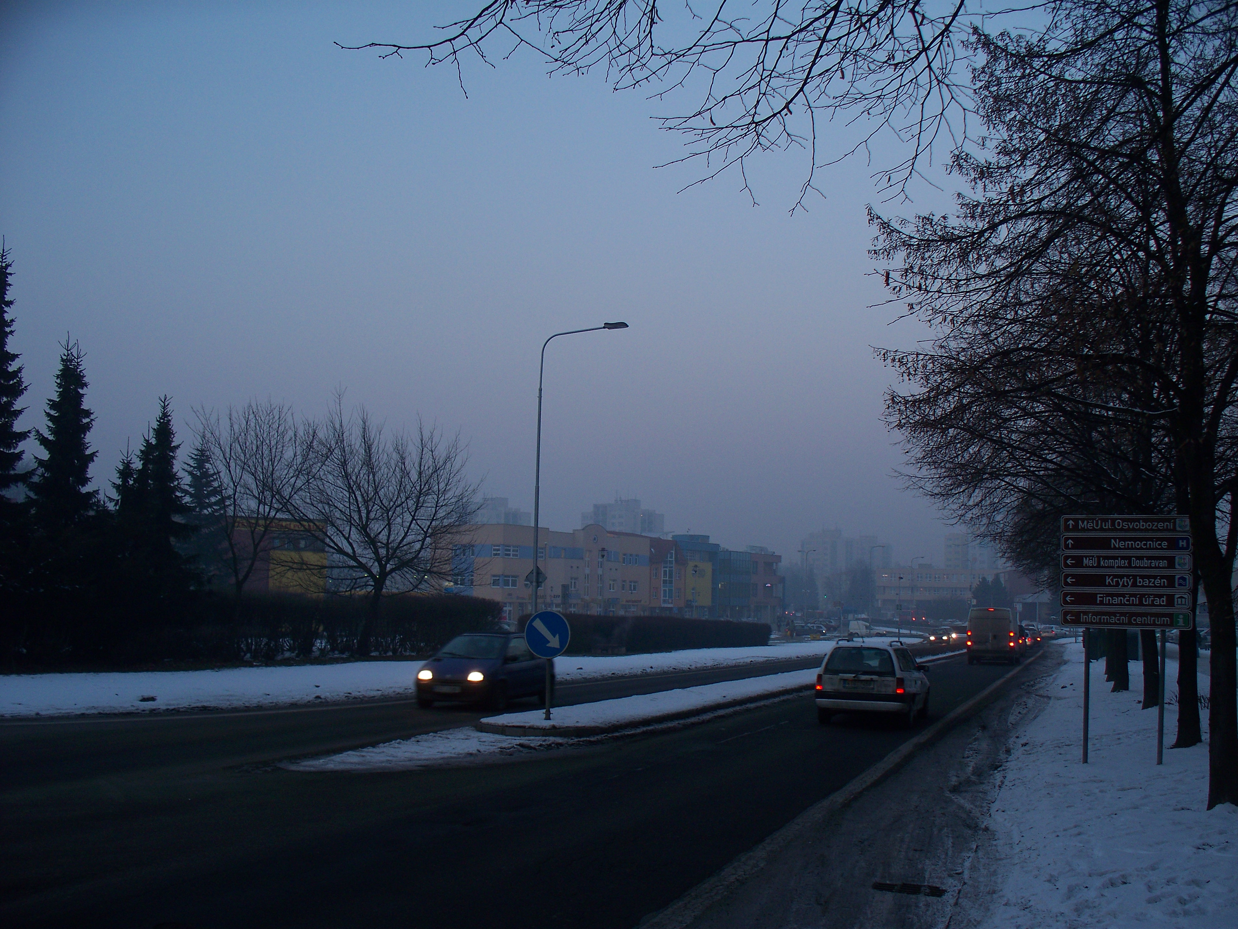 Typical winter smog in Orlová, Czech Republic